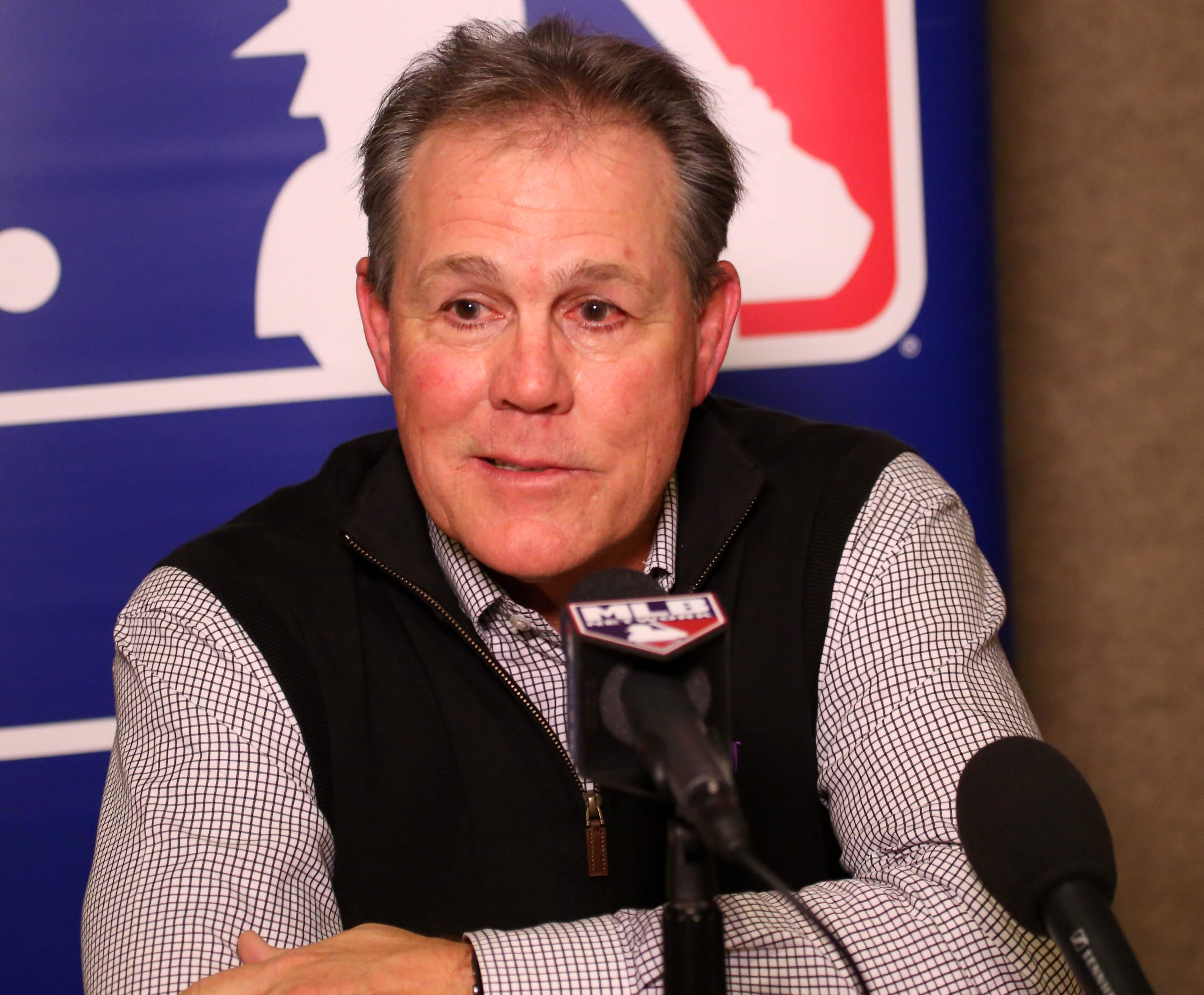 Royals skipper Ned Yost talks to reporters at the #Winter Meetings.